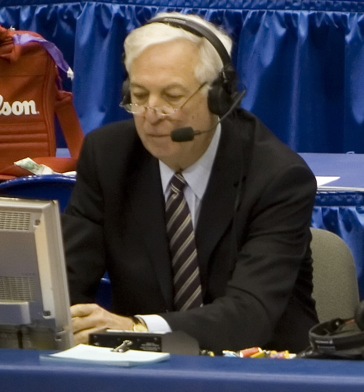 Bill Raftery, CBS Sports analyst and former Seton Hall University head coach, prepares to call an NCAA basketball tournament game in 2009 at the University of Dayton Arena.